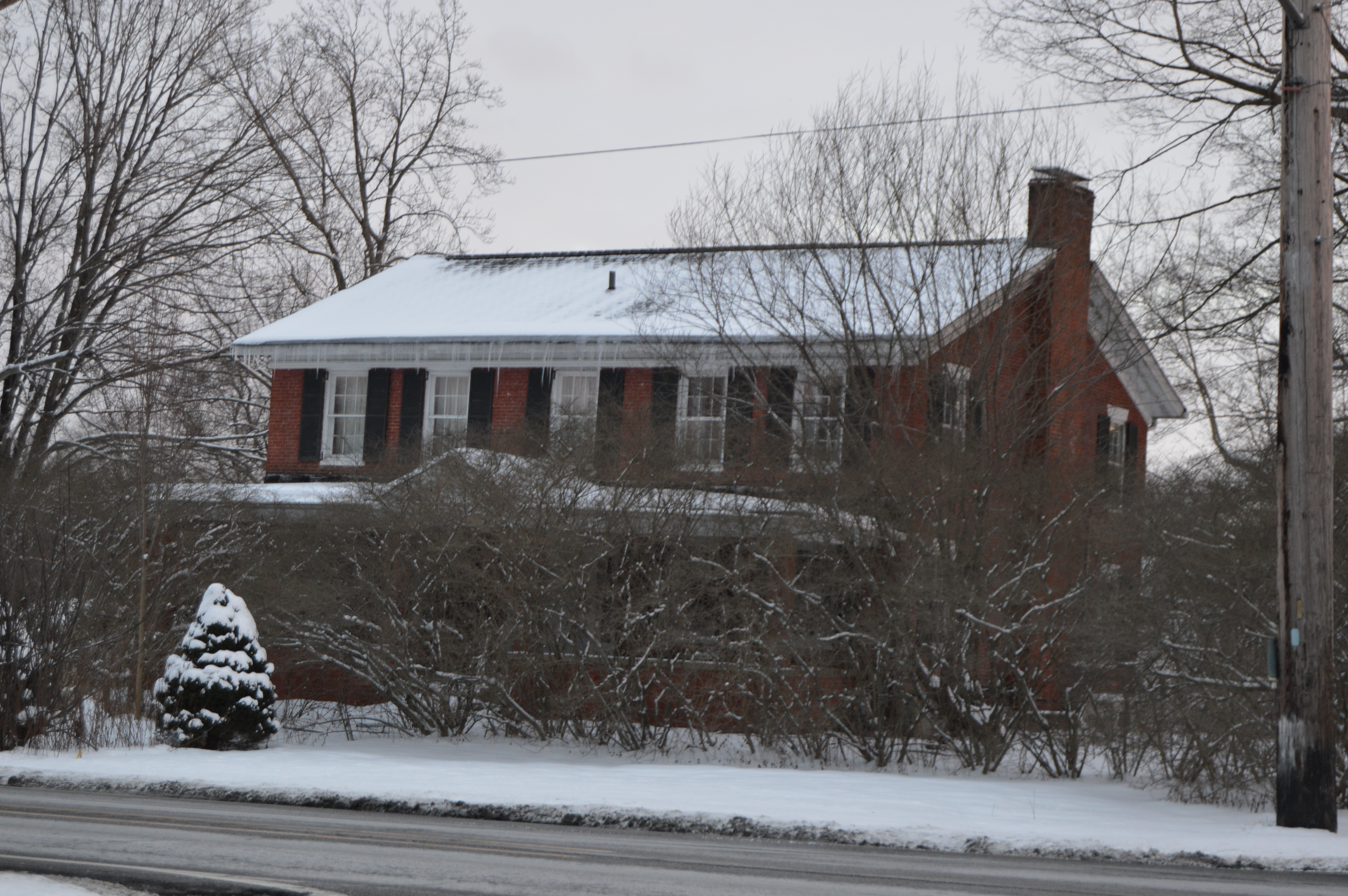 Front of the Fox-Pope Farmhouse, located along U.S. Route 422 at 17767 Rapids Road west of Welshfield in Troy Township, Geauga County, Ohio, United States. Built in 1820, it is listed on the National Register of Historic Places.